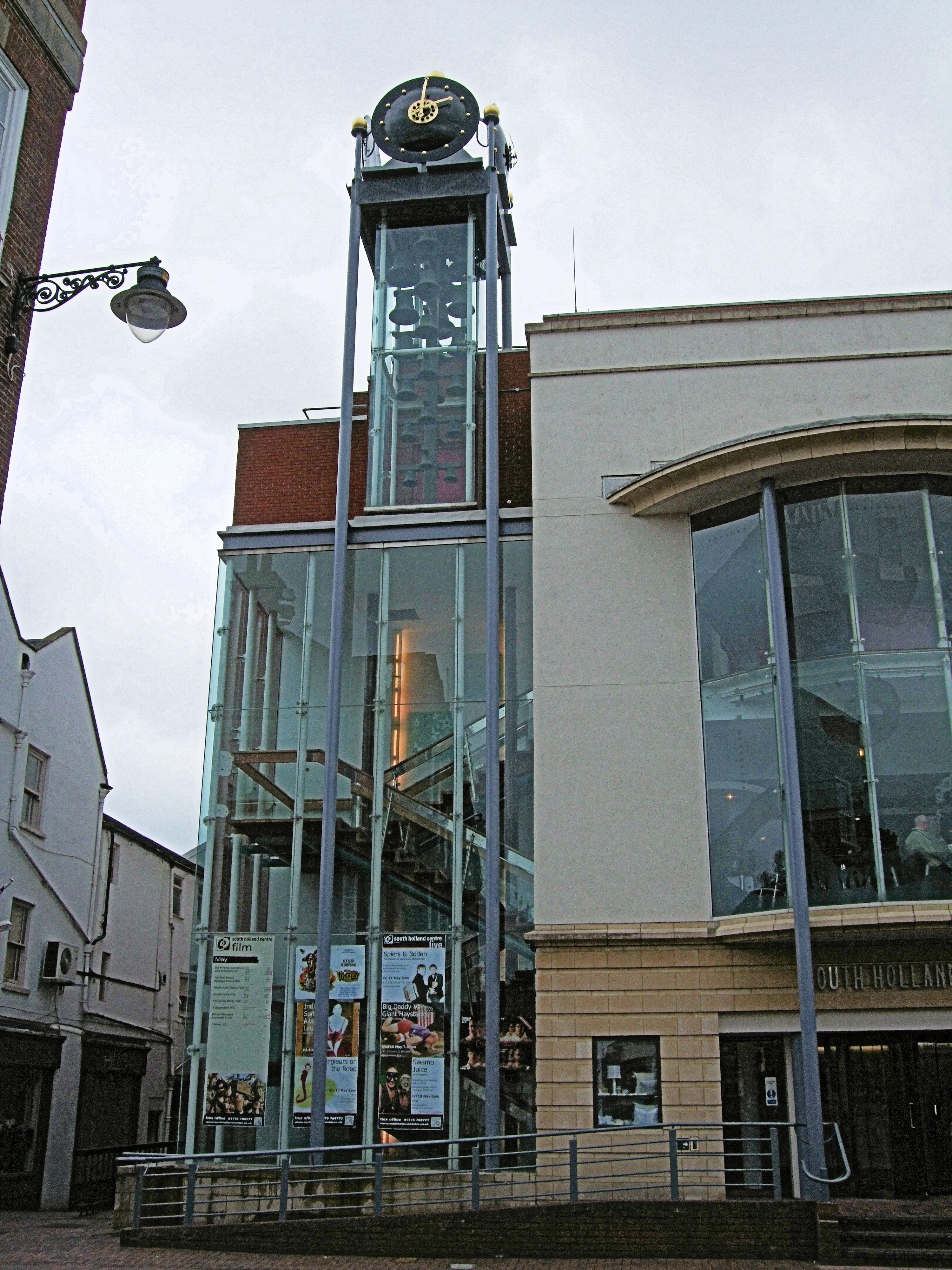 Clock tower of the South Holland Centre, Spalding, Lincolnshire